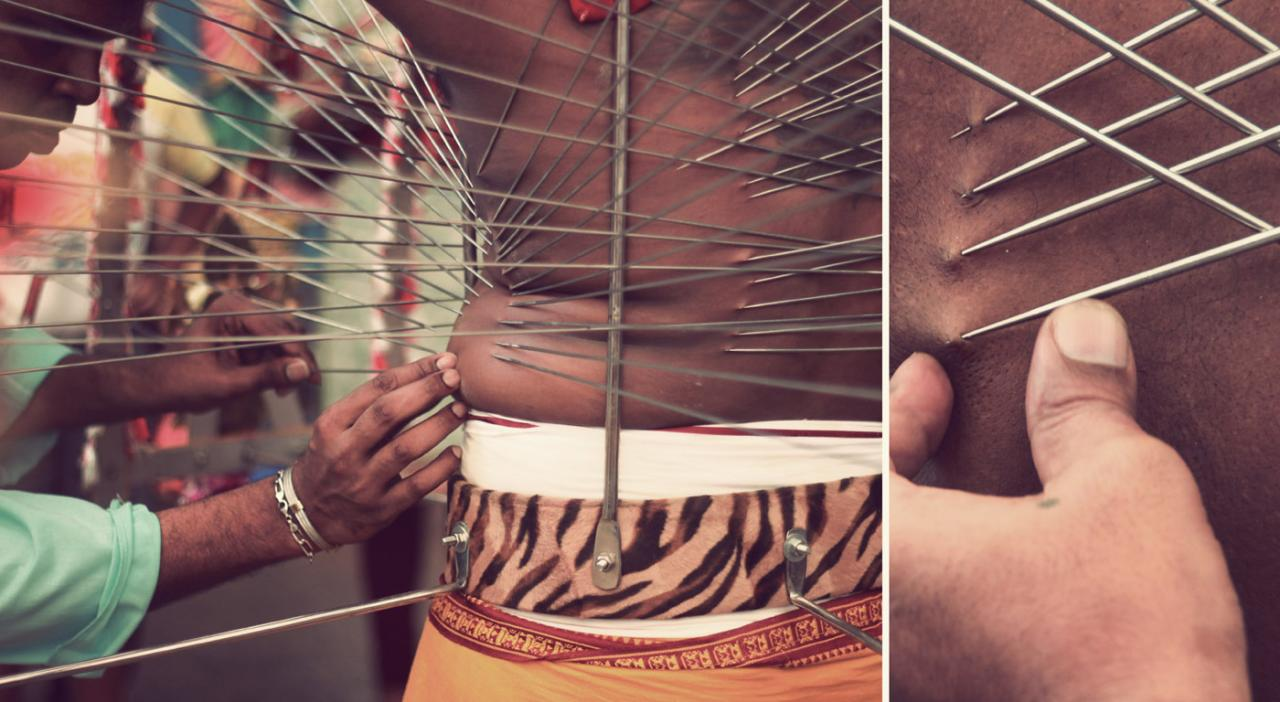 Thaispusam festival in Singapor 2011